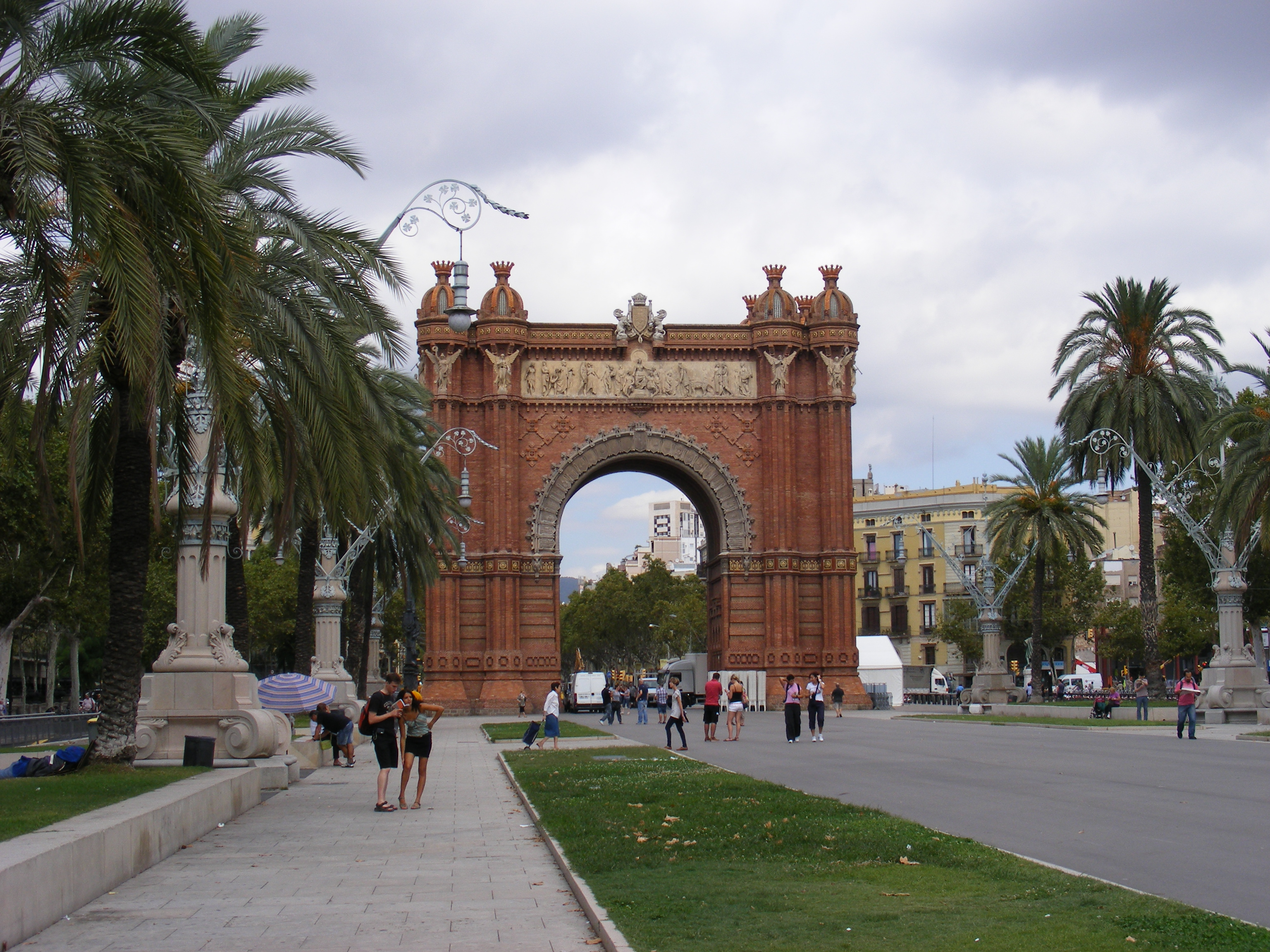 Arc de Triomf of Barcelona, Spain.